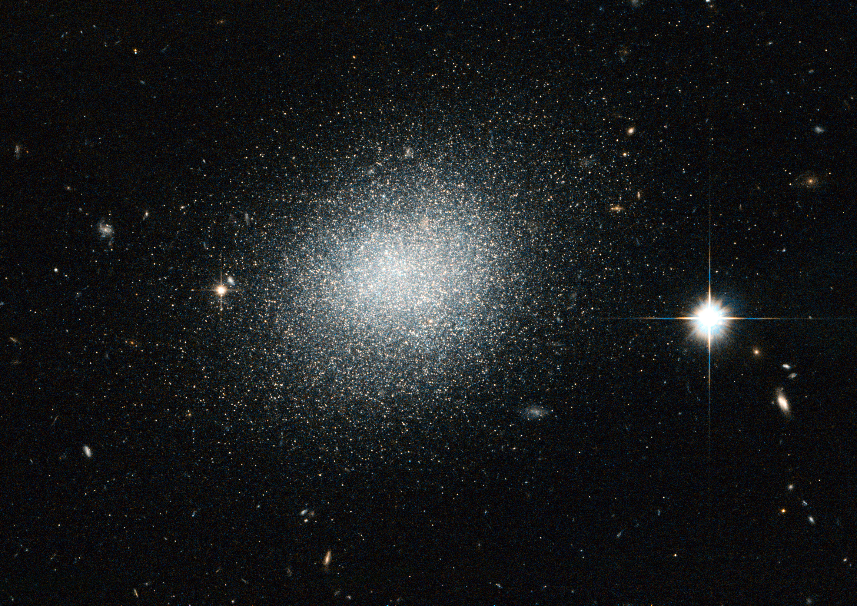 The NASA/ESA Hubble Space Telescope has captured this view of the dwarf galaxy UGC 5497, which looks a bit like salt dashed on black velvet in this image. The object is a compact blue dwarf galaxy that is infused with newly formed clusters of stars. The bright, blue stars that arise in these clusters help to give the galaxy an overall bluish appearance that lasts for several million years until these fast-burning stars explode as supernovae. UGC 5497 is considered part of the M 81 group of galaxies, which is located about 12 million light-years away in the constellation Ursa Major (The Great Bear). UGC 5497 turned up in a ground-based telescope survey back in 2008 looking for new dwarf galaxy candidates associated with Messier 81. According to the leading cosmological theory of galaxy formation, called Lambda Cold Dark Matter, there should be far more satellite dwarf galaxies associated with big galaxies like the Milky Way and Messier 81 than are currently known. Finding previously overlooked objects such as this one has helped cut into the expected tally — but only by a small amount. Astrophysicists therefore remain puzzled over the so-called "missing satellite" problem. The field of view in this image, which is a combination of visible and infrared exposures from Hubble’s Advanced Camera for Surveys, is approximately 3.4 by 3.4 arcminutes.